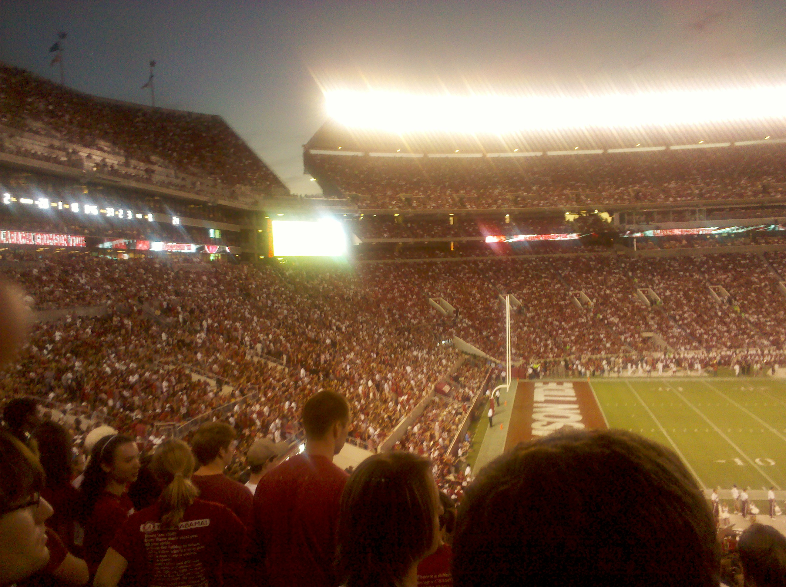 Bryant-Denny Stadium newly expanded south end zone with new led screens.